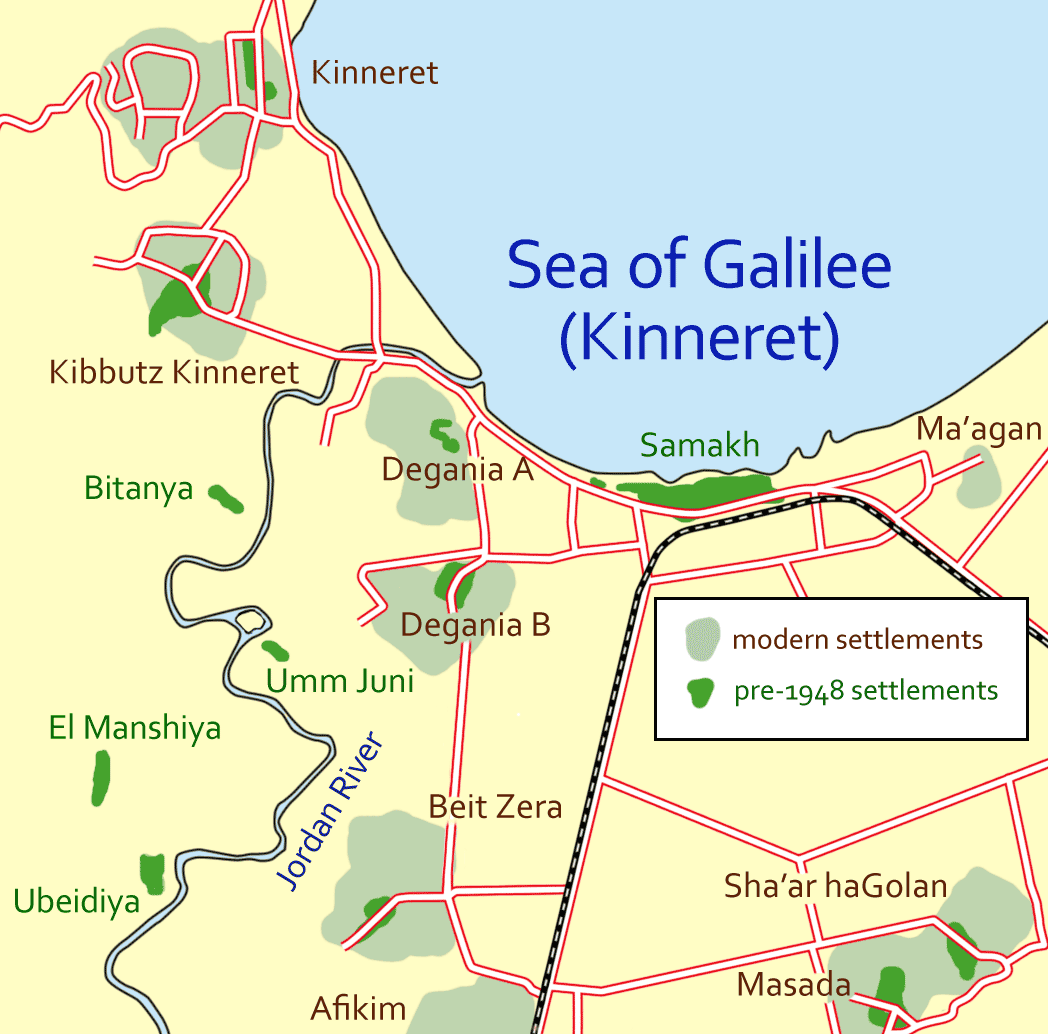 Southern edge of Sea of Galilee (Lake Tiberias, Kinneret) from mid-20th century until now.